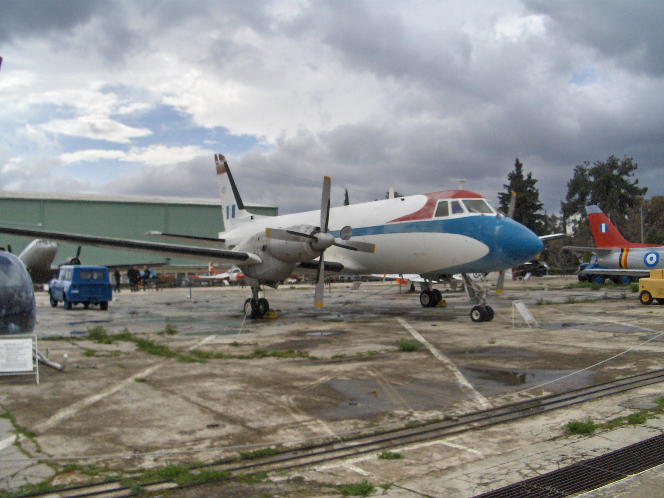 Exhibit at the Hellenic Air Force Museum at Dekelia (Tatoi), Athens, Greece. Grumman G.159 Gulfstream I